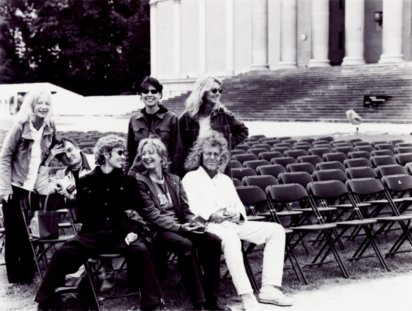 The Harem